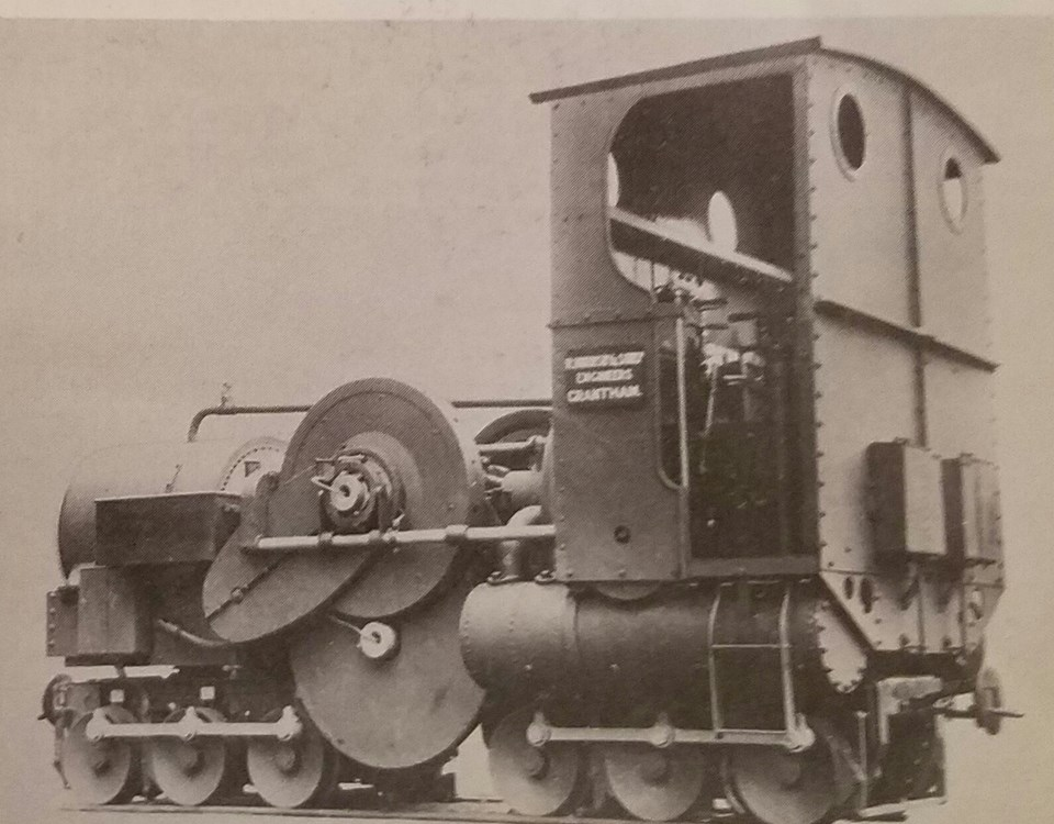 Hornsby-Akroyd_internal_combustion_engine_locomotive_of_the_2ft_6in_gauge_Chattenden_&_Upnor_Railway_(works_No._6234), equipped with a single-cylinder horizontal engine with two opposed pistons, each driving onto a central crankshaft. This crankshaft drove the two 6-wheel bogies through gears.